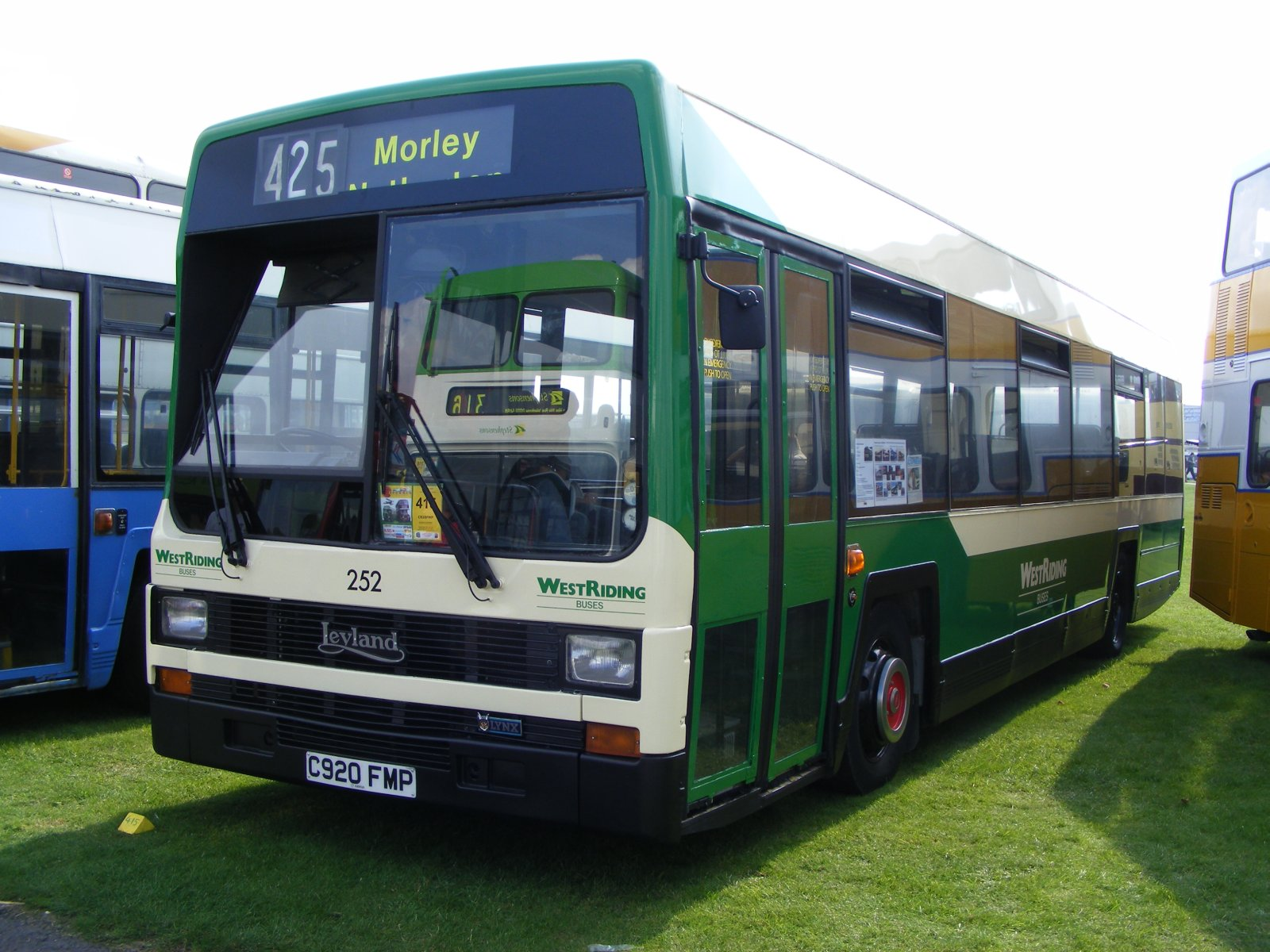 West Riding 252 (C920 FMP), a Leyland Lynx, seen at Showbus 2008.